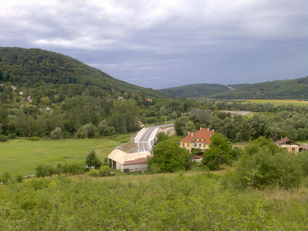 Bridge between Ráróspuszta - Rároš